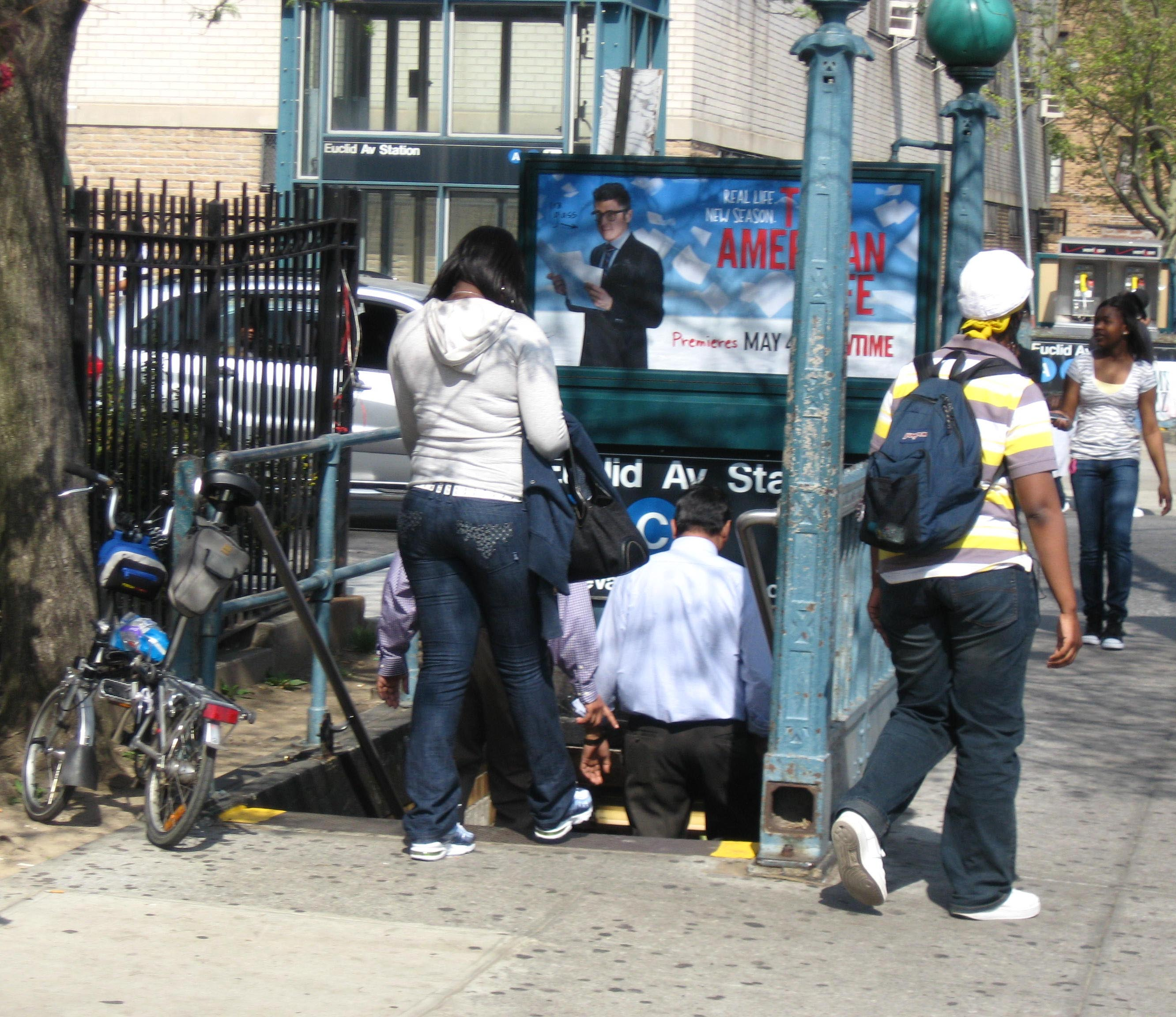 Euclid stairway looking east on north side of the street on a sunny springtime afternoon.